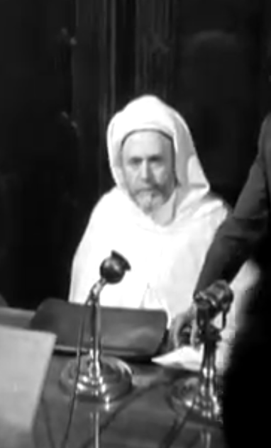 Fatmi Benslimane, nominated Prime Minister of Morocco